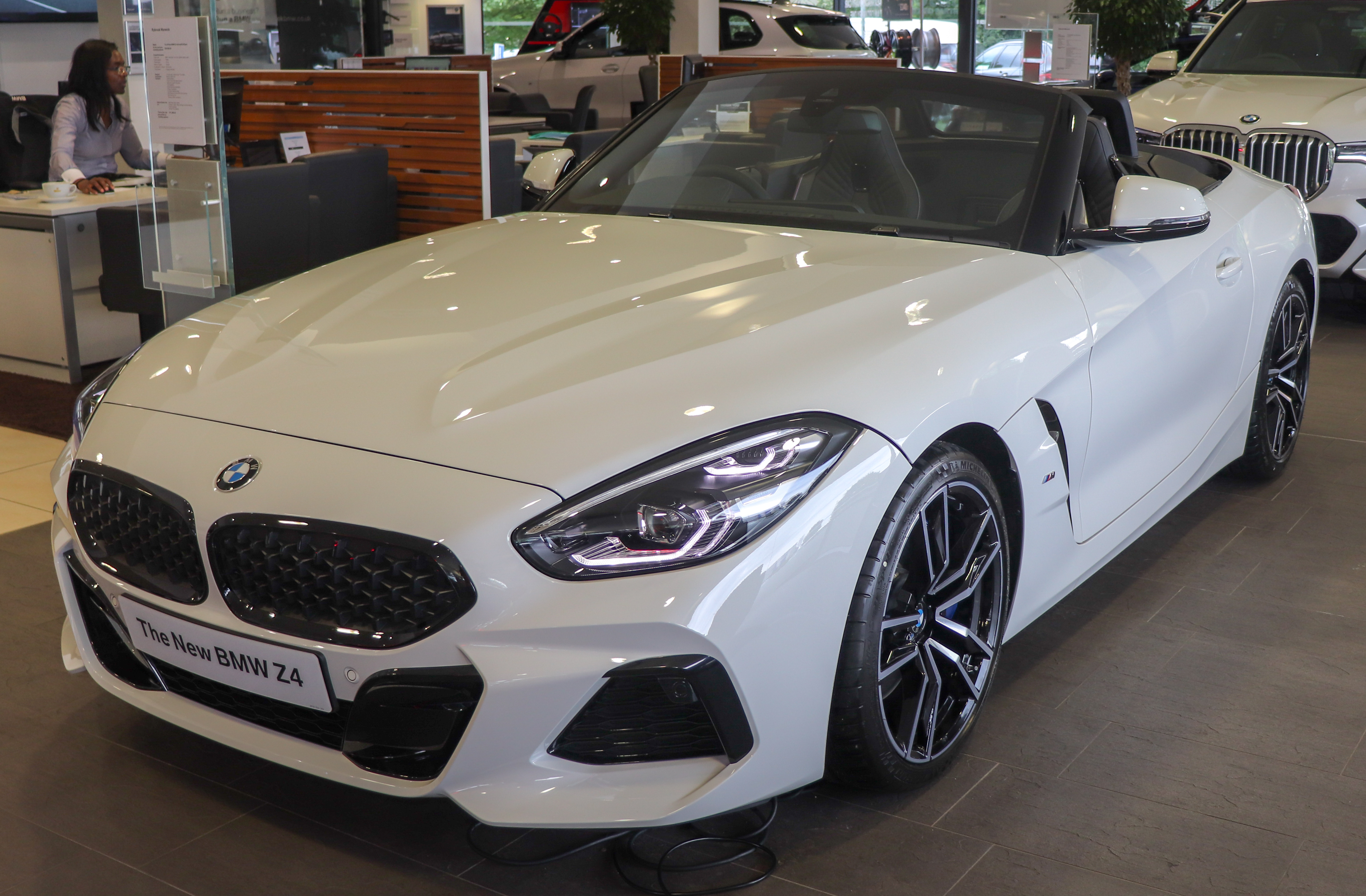 2019 BMW Z4 sDrive20i M Sport 2.0 Front Taken in Leamington Spa